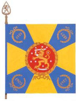 The traditional colour of the Guards' Battalion of the Guard Jaeger Regiment, awarded to the battalion in 1957.